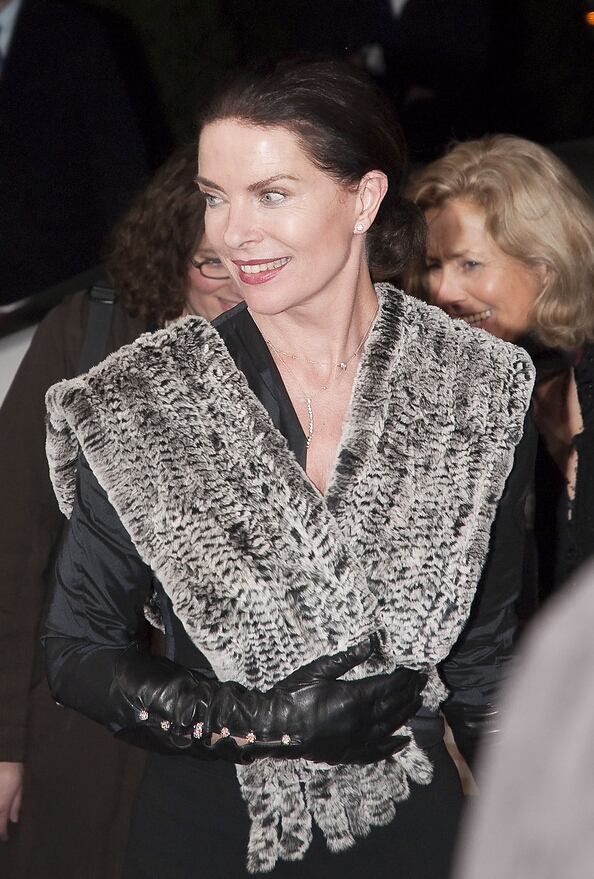 Gudrun Landgrebe, German actress Volkswagen People’s Night 2008